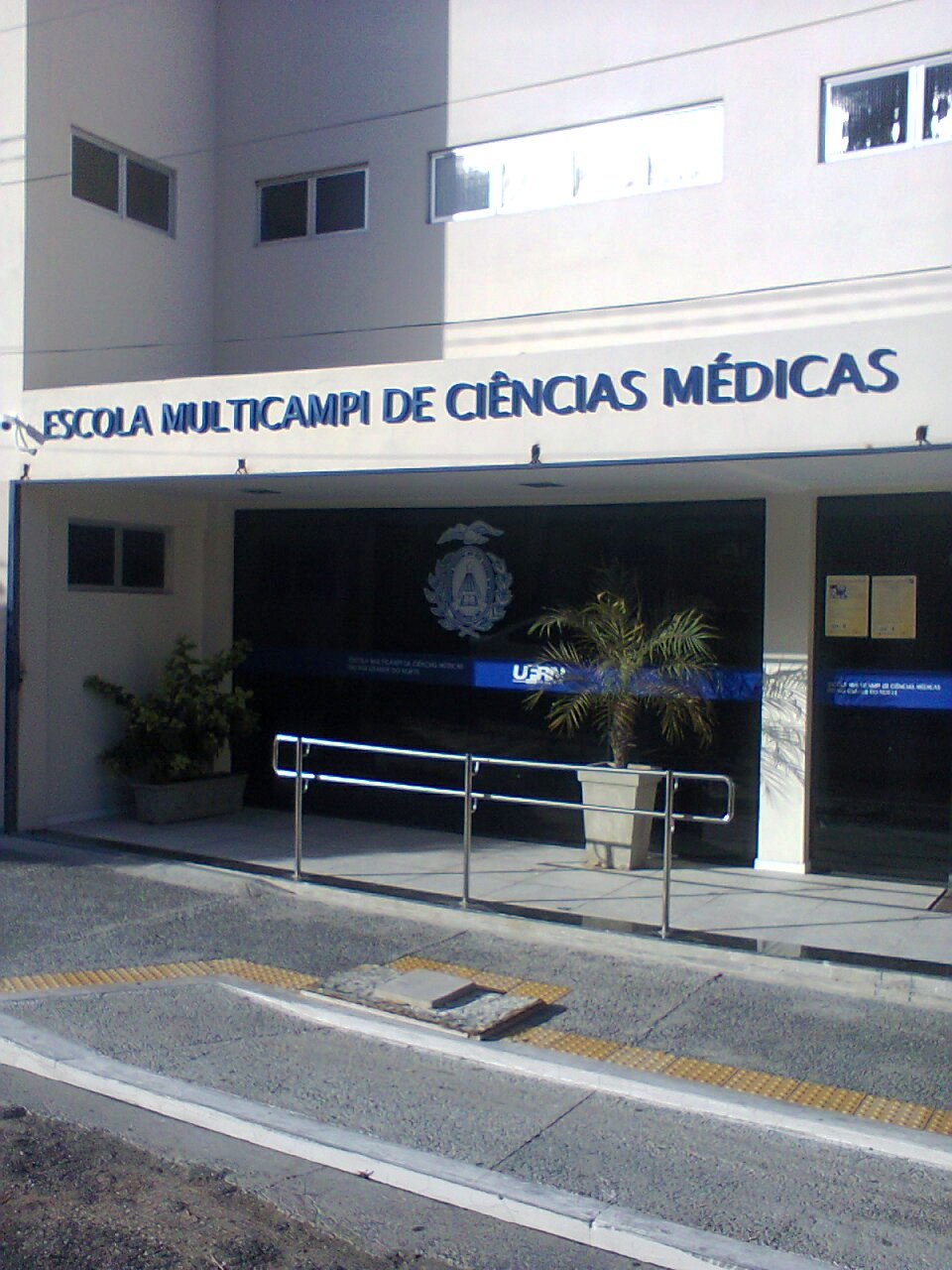 Escola Multicampi de Ciências Médicas da UFRN, Campus Caicó/RN